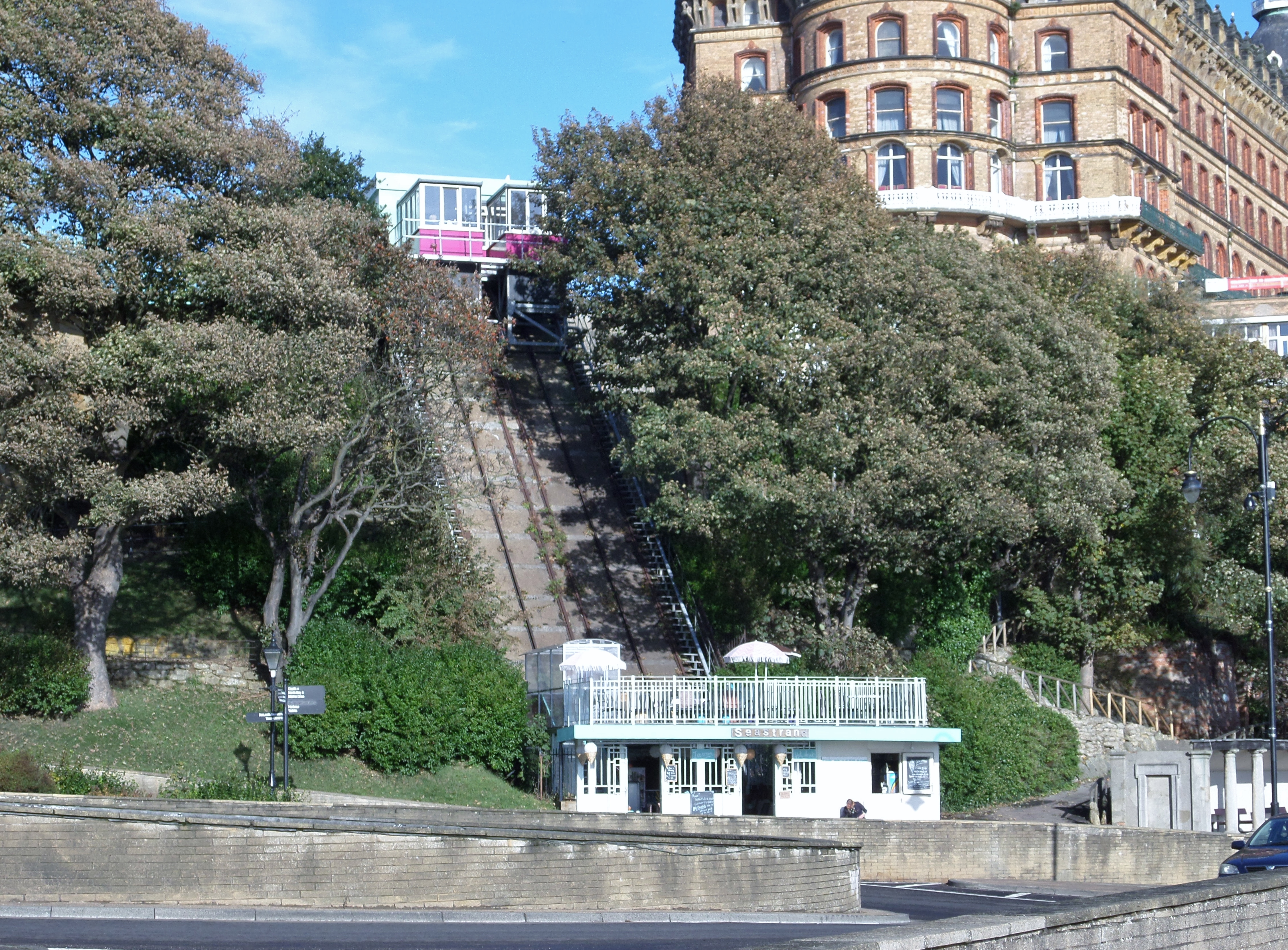 The old St Nicholas Cliff Lift, Scarborough, Yorkshire